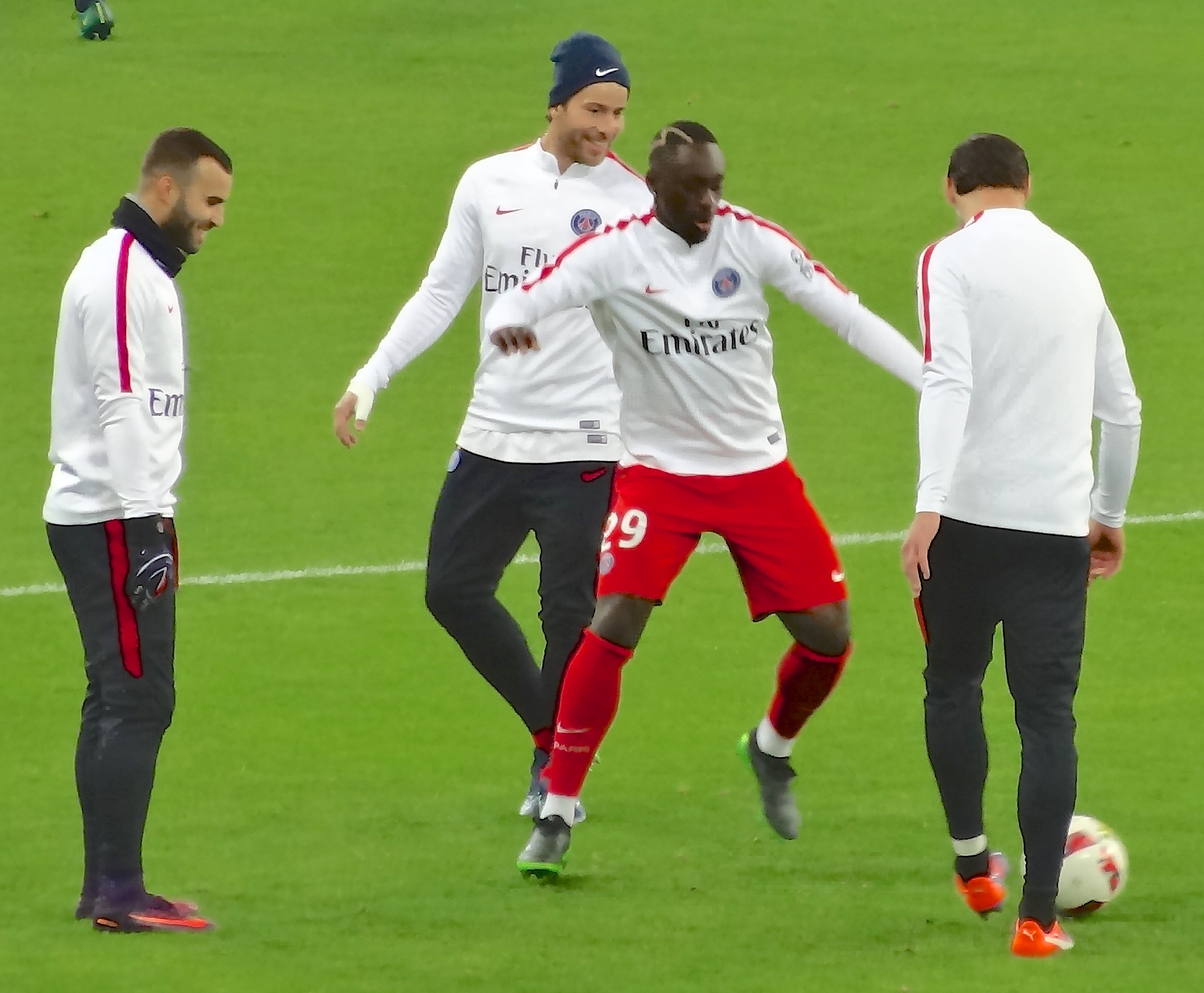 Jesé, Maxwell & Jean-Kévin Augustin (PSG)